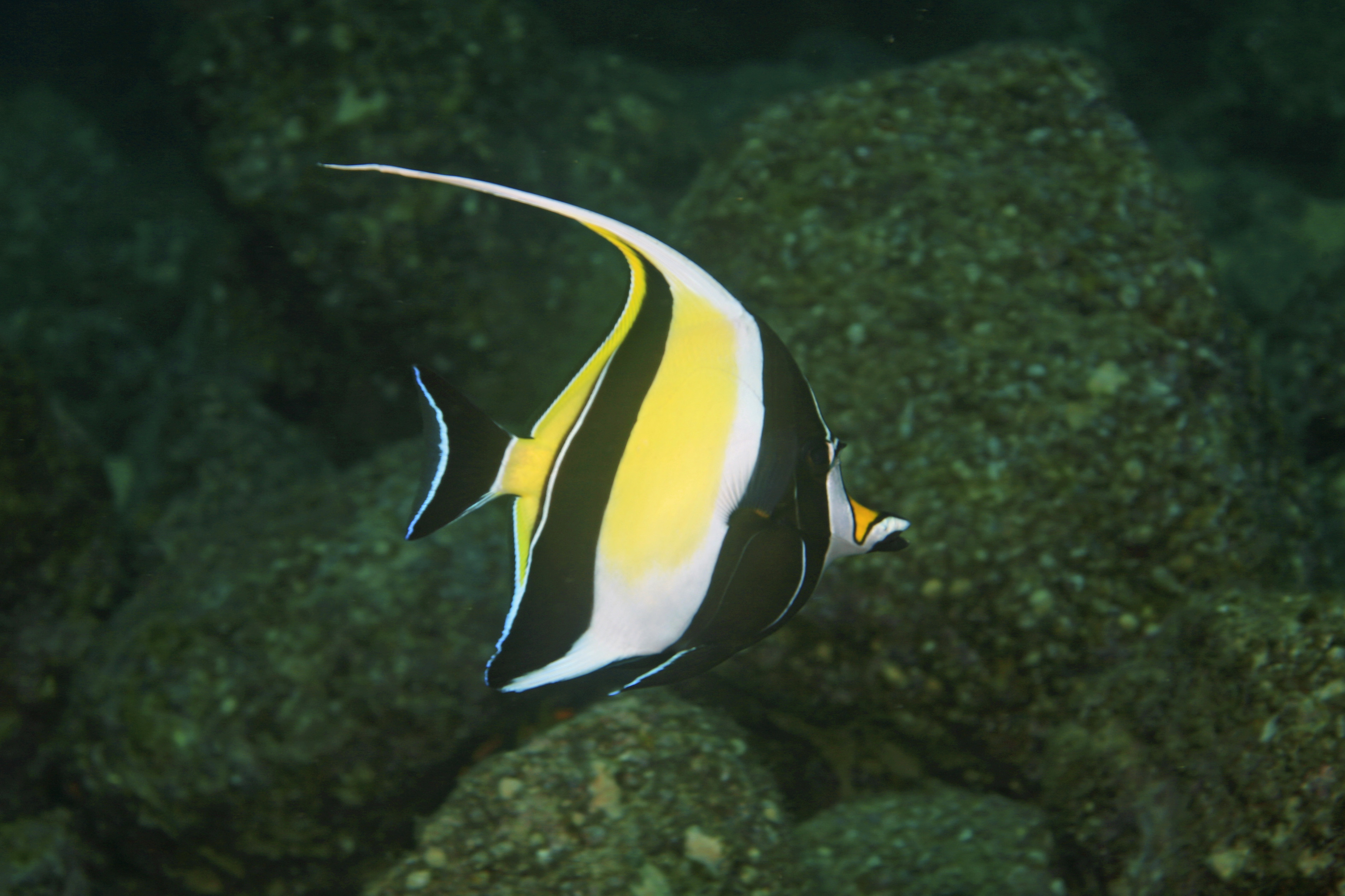 Zanclus cornutus photographed at Frijoles dive site in Coiba National Park, Panama.